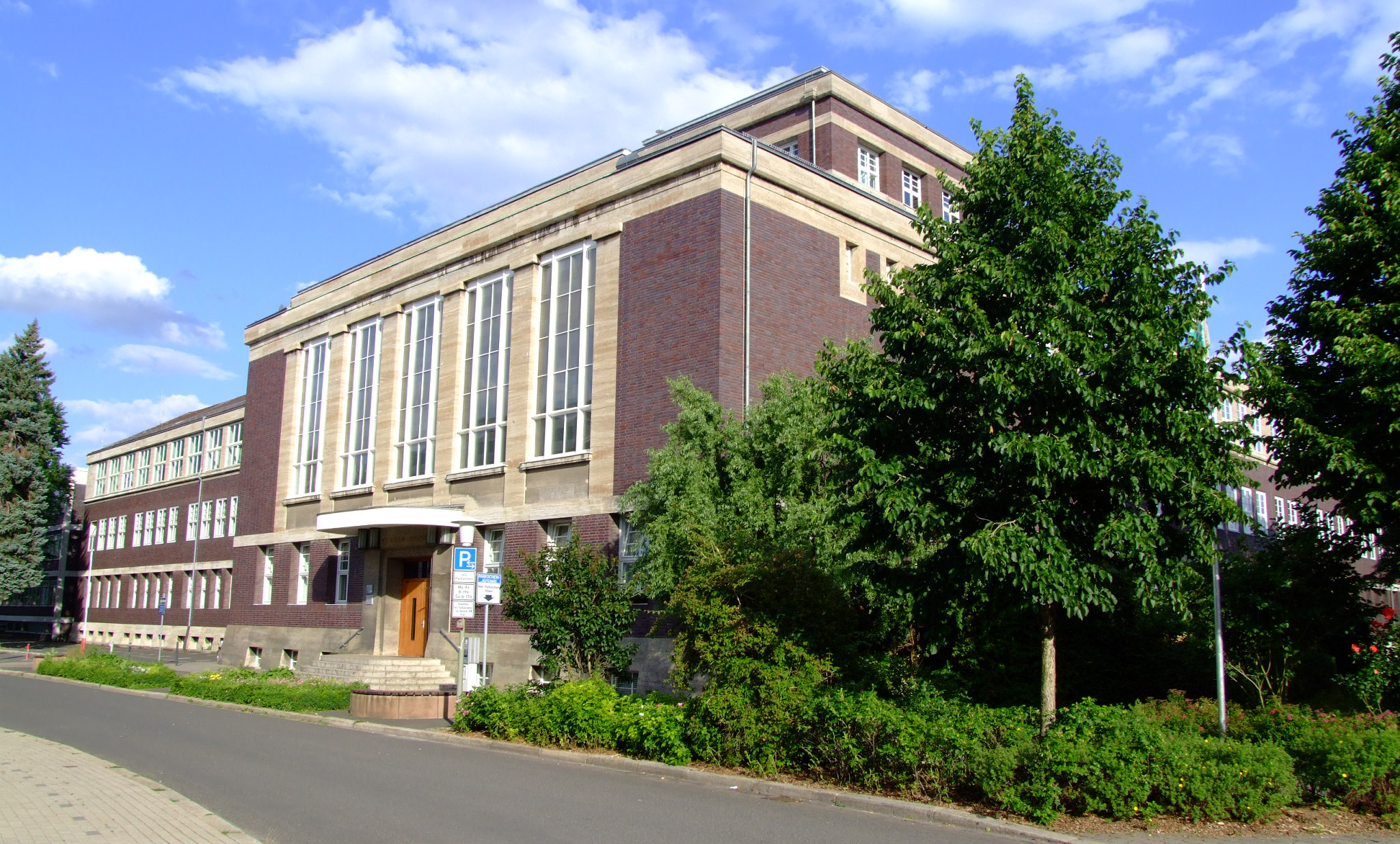 Felix Klein Gymnasium Göttingen (grammar school)